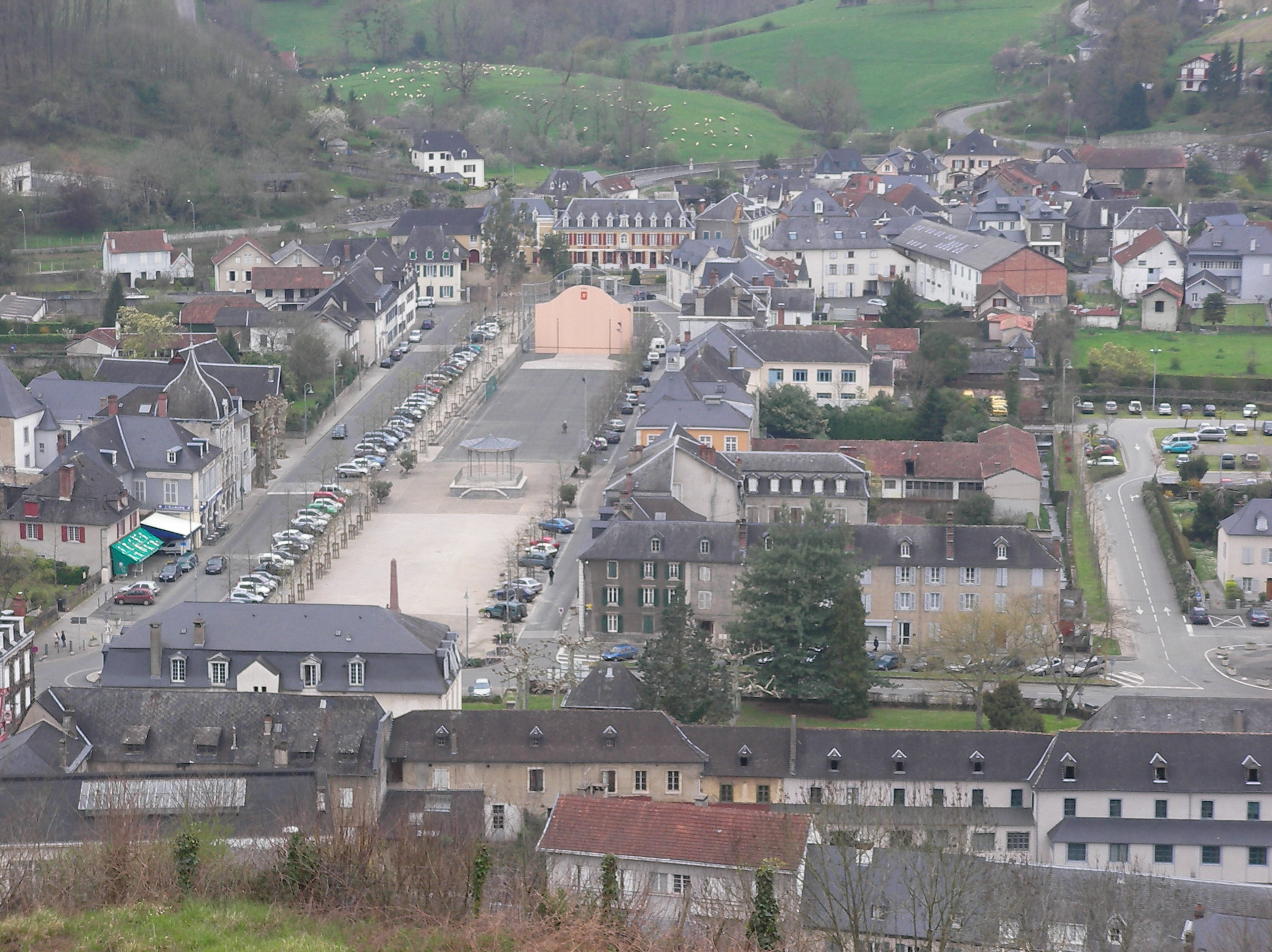 Mauléon and the square des Allées, seen from the old castle